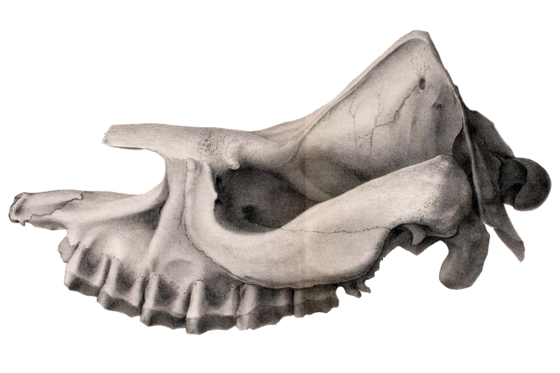 Hitherto unpublished plates of Tertiary Mammalia and Permian Vertebrata, Peraceras superciliosus